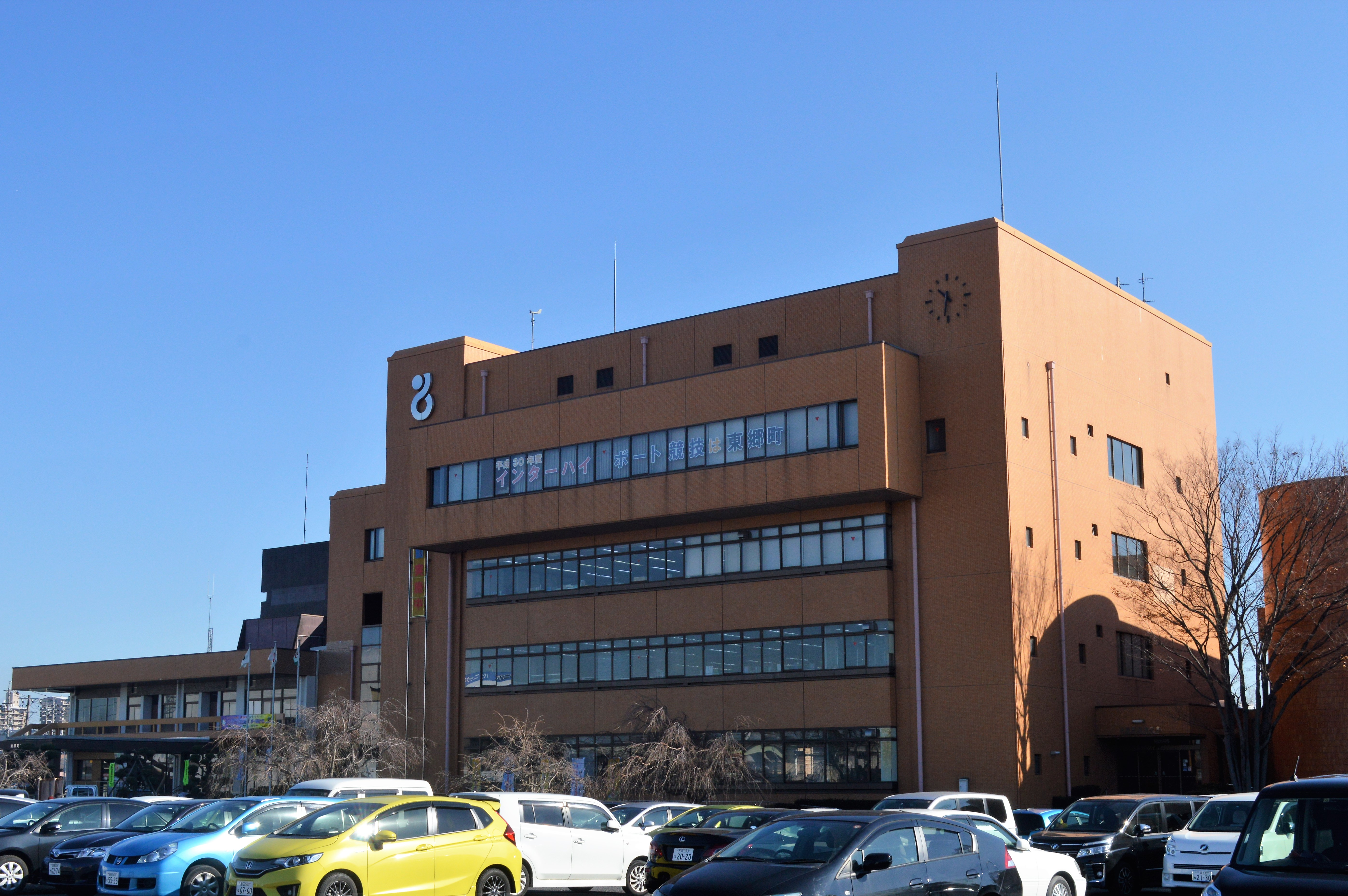 Togo Town Hall in Aichi prefecture, Japan.